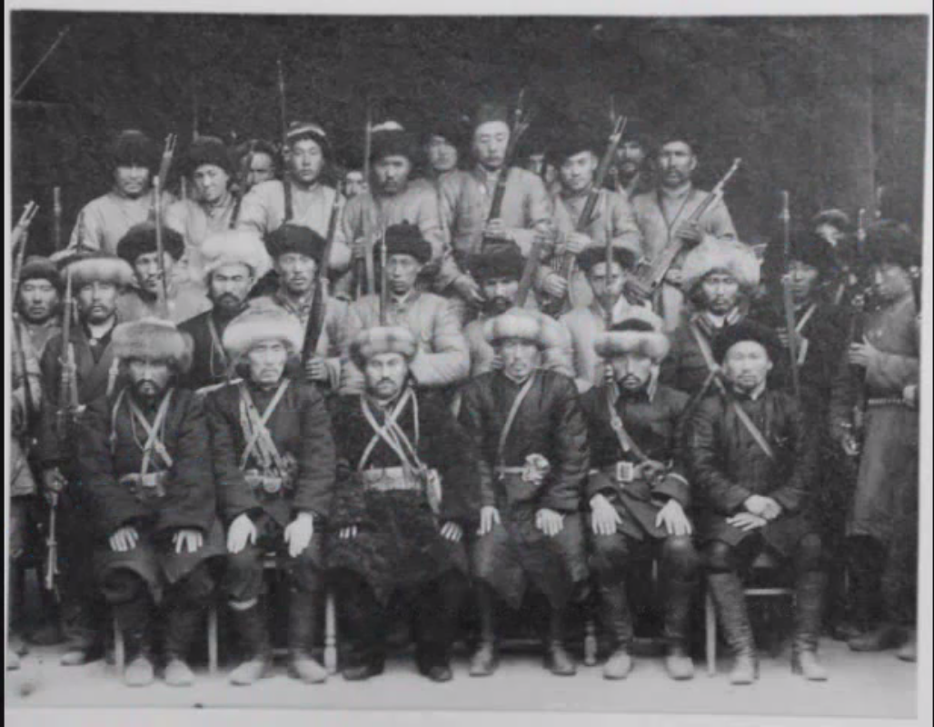 Army officers of the Islamic Republic of East Turkistan 1933-1934